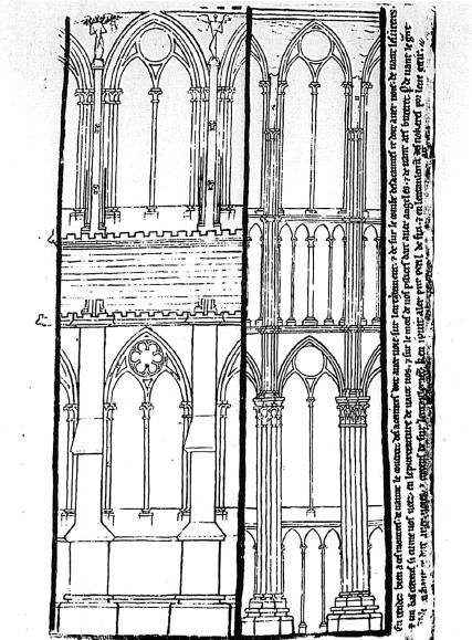 Villard de Honnecourt, Drawing from Reims Cathedral